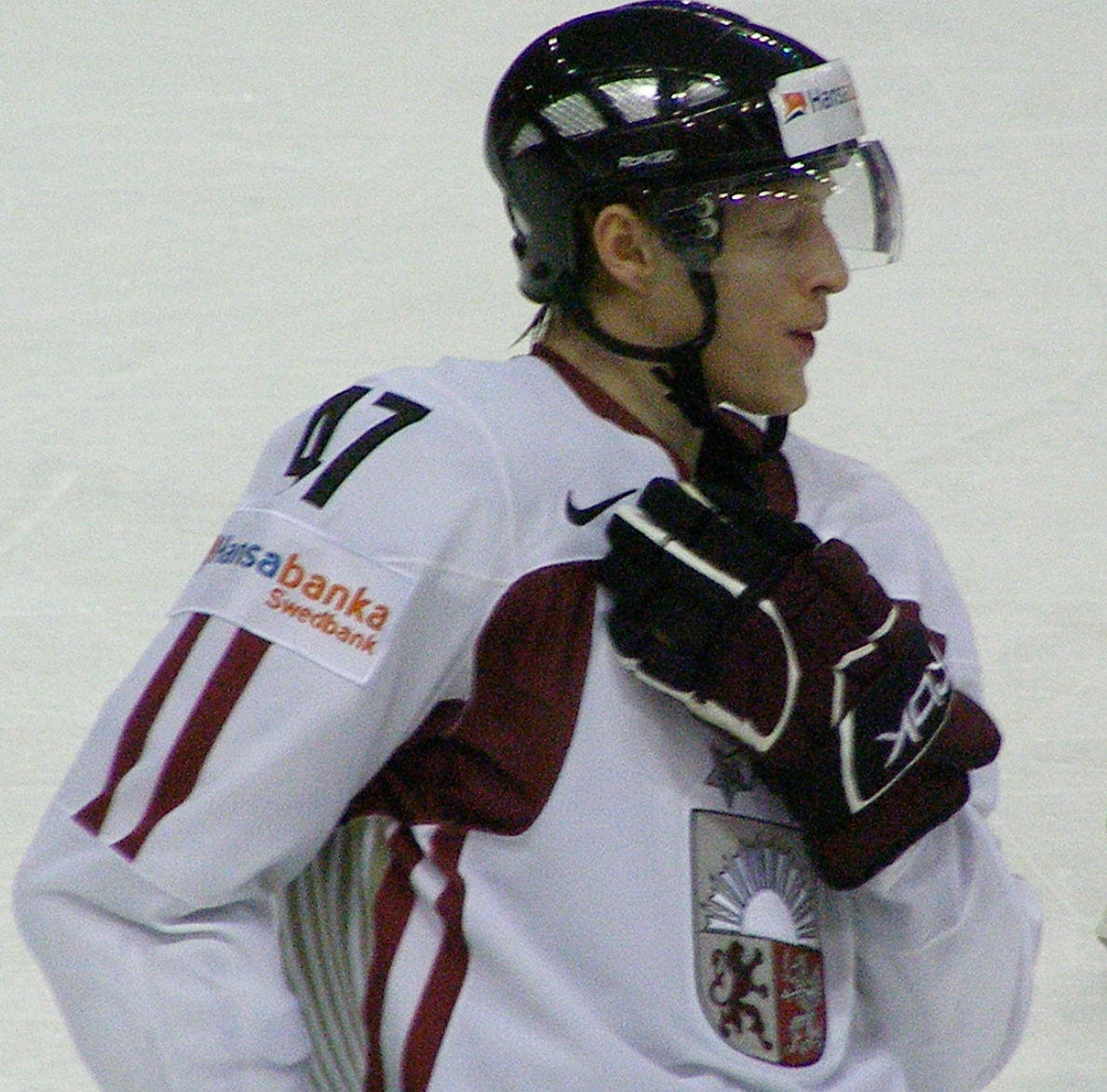 Mārtiņš Cipulis /Latvia VS Slovenia (IIHF World Hockey Championship in Halifax NS, May 6 2008)/